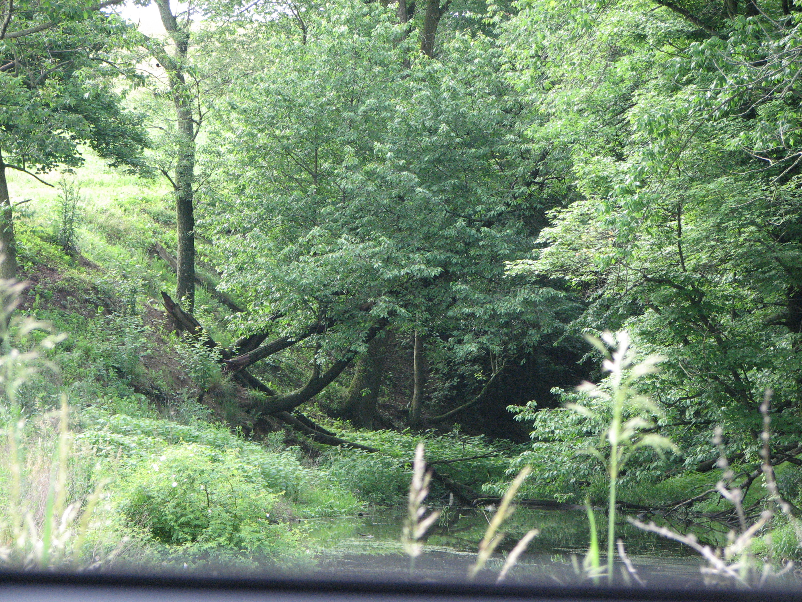 Flooded cut approaching the north portal of the unfinished Windsor Castle Tunnel on the Allentown Railroad near Hamburg, Pennsylvania.